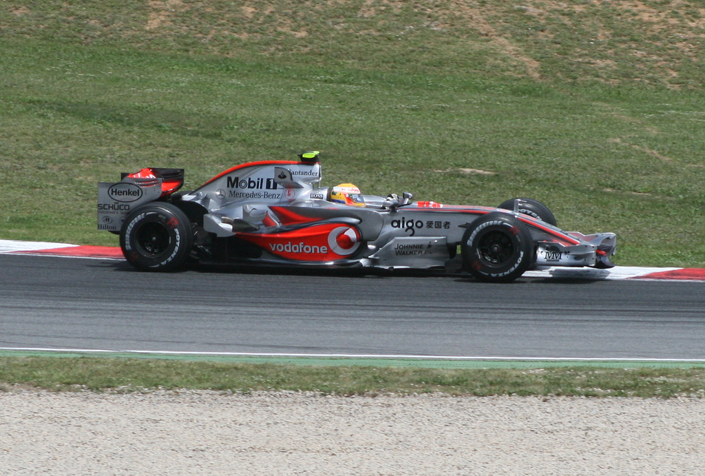 Lewis Hamilton driving for McLaren at the 2007 Spanish Grand Prix.